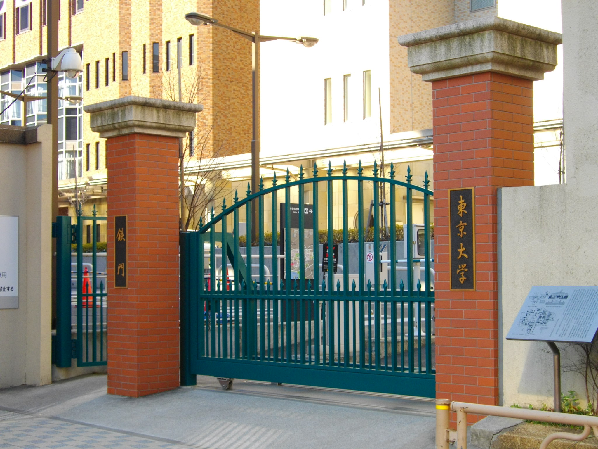 University of Tokyo Tetsumon(Gate)